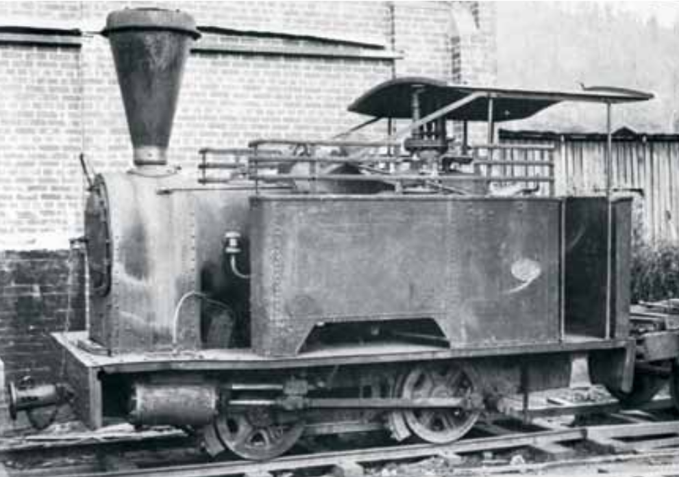 'Coffee Pot' Kerr Stuart 3ft gauge 0-4-0T locomotive (No. 643 of 1898) at Powelltown c.1937. The loco was painted green and traces of lining on the tank sides appear to be visible.